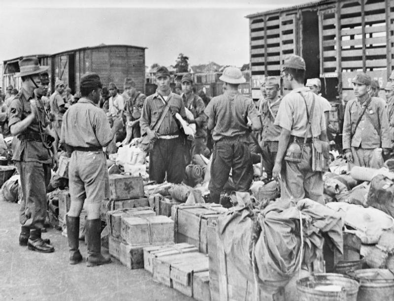 Japanese Troops Leave Bangkok, 1945 A British officer of a Gurkha battalion gives the order, through an interpreter, for Japanese prisoners to hand over all sharp objects such as knives, needles and razors before boarding trains that will carry them to prisoner of war camps outside the city of Bangkok.